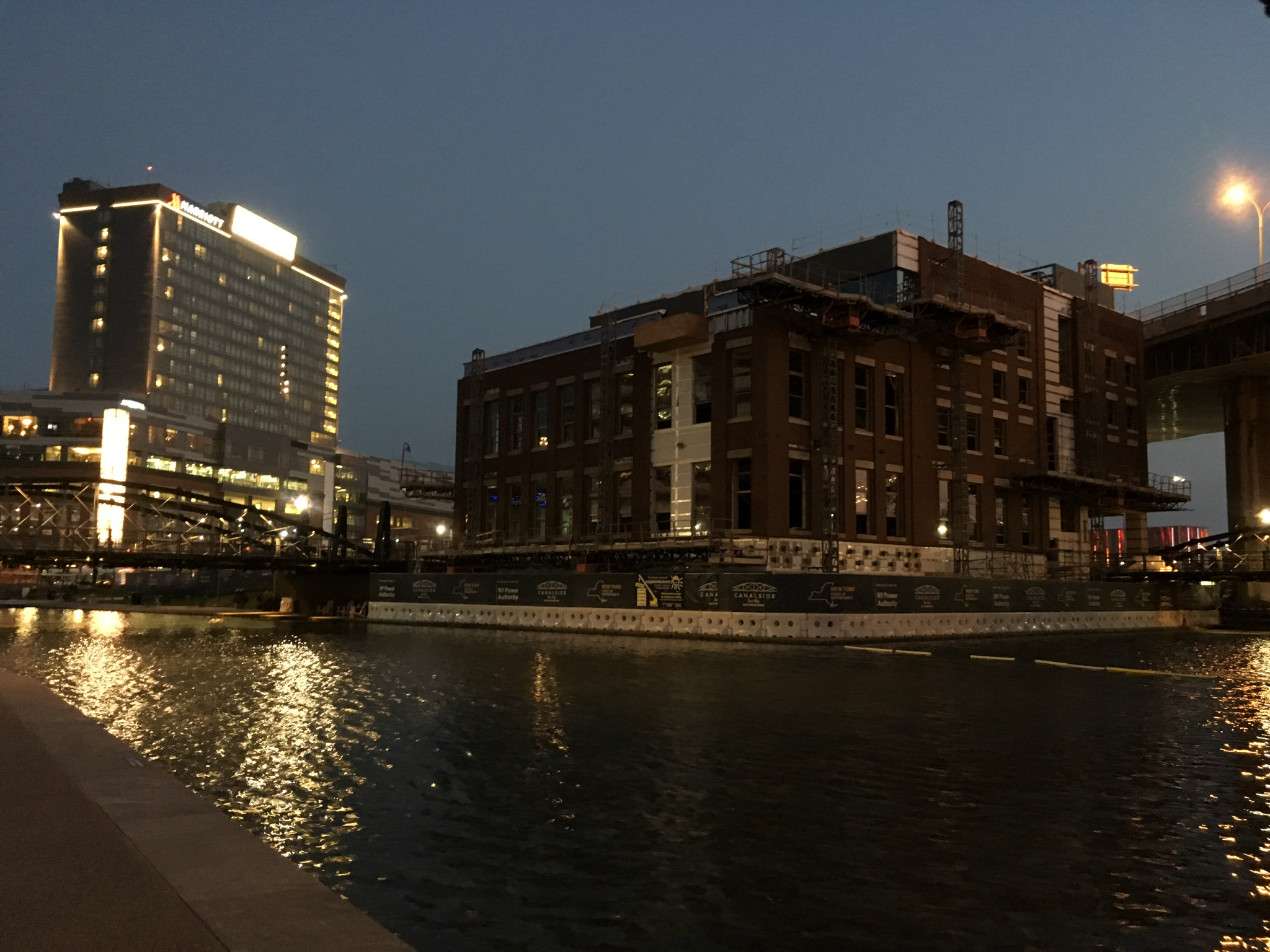 Night view of Explore and More museum under construction in Buffalo New York